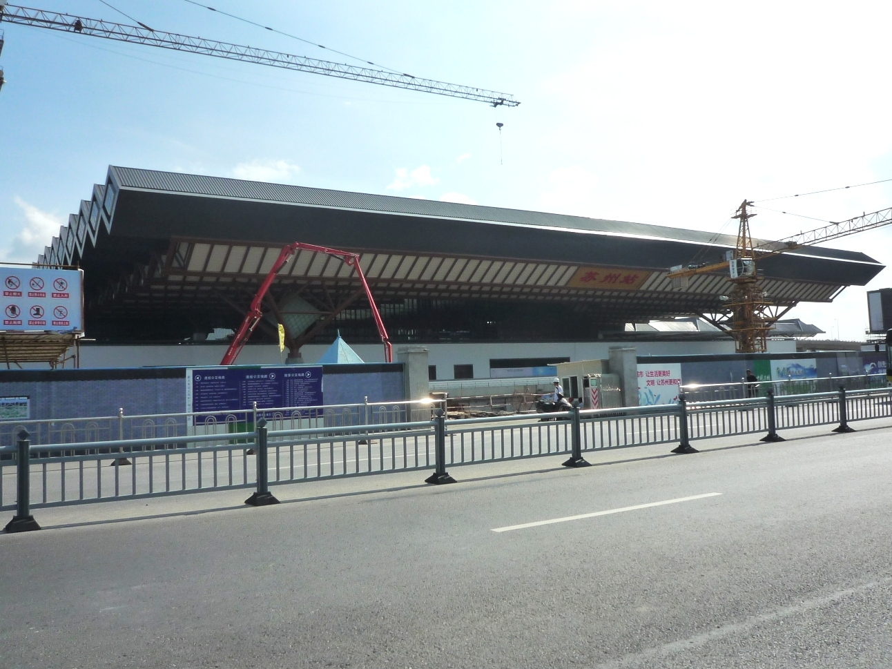 New Suzhou Railway Station